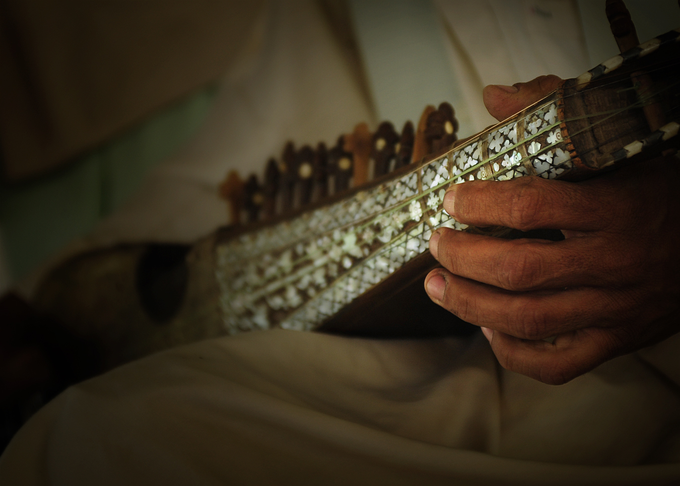 FARAH, Afghanistan (May 08, 2010) – A band member plays the rubab during a musical performance at the Anab Gull Poetry Festival at the Farah Provincial Governors compound in Farah, Afghanistan, May 8, 2010. The festival was the first of its kind in two years and was an effort to remind the Afghan people of their rich cultural history. Male and female poets of all ages recited their poems to an audience consisting of coalition forces, provincial leadership and Afghans from all over the 10 districts of Farah province. Many poems focused on topics such as love, fruits, governance, the importance of education and the issues and beauty that lie within Afghanistan. (ISAF photo by U.S. Air Force Senior Airman Rylan K. Albright)